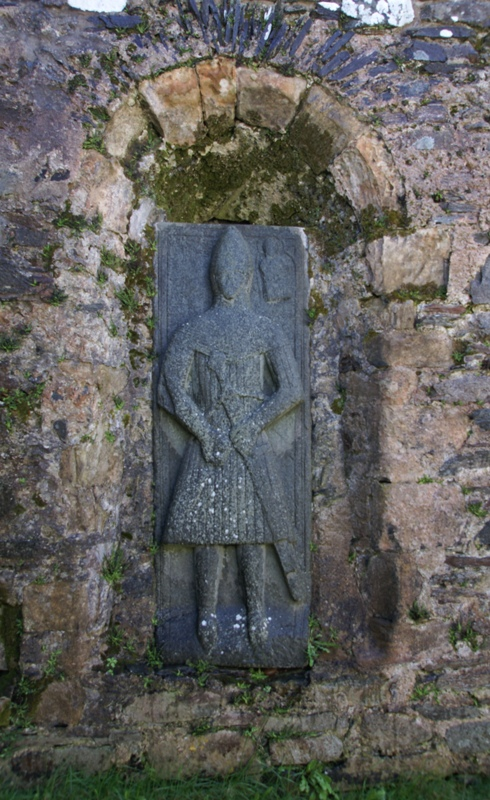 Kildalton Church, Kildalton, Islay, Argyll and Bute, Scotland. Grave slab, Graham no.86 (Iona-school)